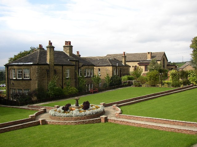 Roe Head, Mirfield. This now is part of Hollybank Special School, and the modern chapel is on the right. The blue plaque reads: Roe Head - Built on land bought from the Armytage Kamily of Kirklees Hall in the mid-17C and rebuilt in 1740. The building became a school in 1830, attended by the Brontë sisters, Charlotte, 1831-32, Emily, 1836, Anne 1836-7. Charlotte returned in July 1835 as a teacher. Headmistress of the school was Margaret Wooler (Mrs Prior in Shirley) and Charlotte's Friends at school were Ellen Nussey and Mary Taylor (Caroline Helstone and Rose Yorke in Shirley).